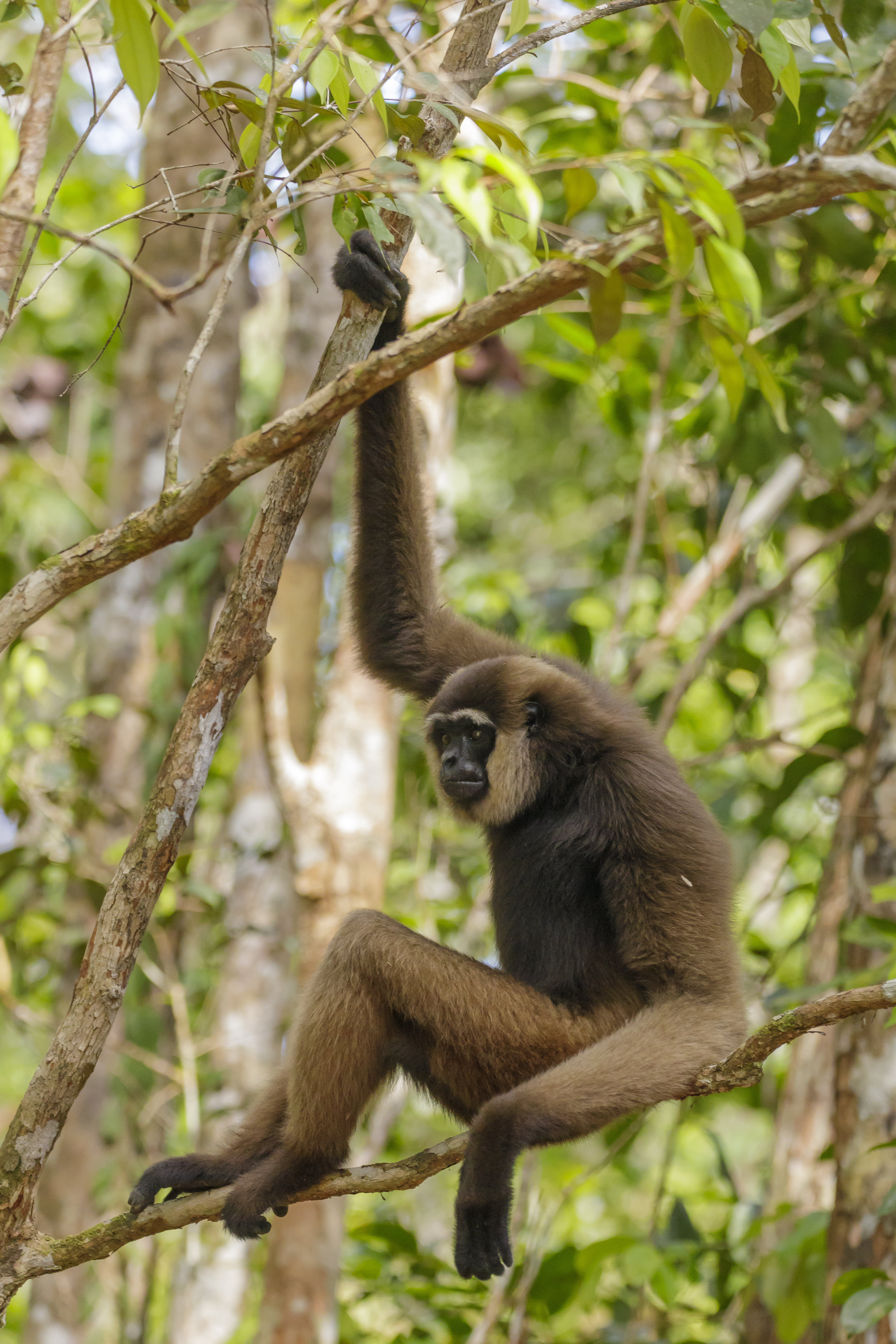 Bornean white-bearded gibbon, (Hylobates albibarbis) - taken during a photo trip to Indonesia in 2018 - taken by Thomas Fuhrmann, SnowmanStudios - see more pictures on / mehr Aufnahmen auf